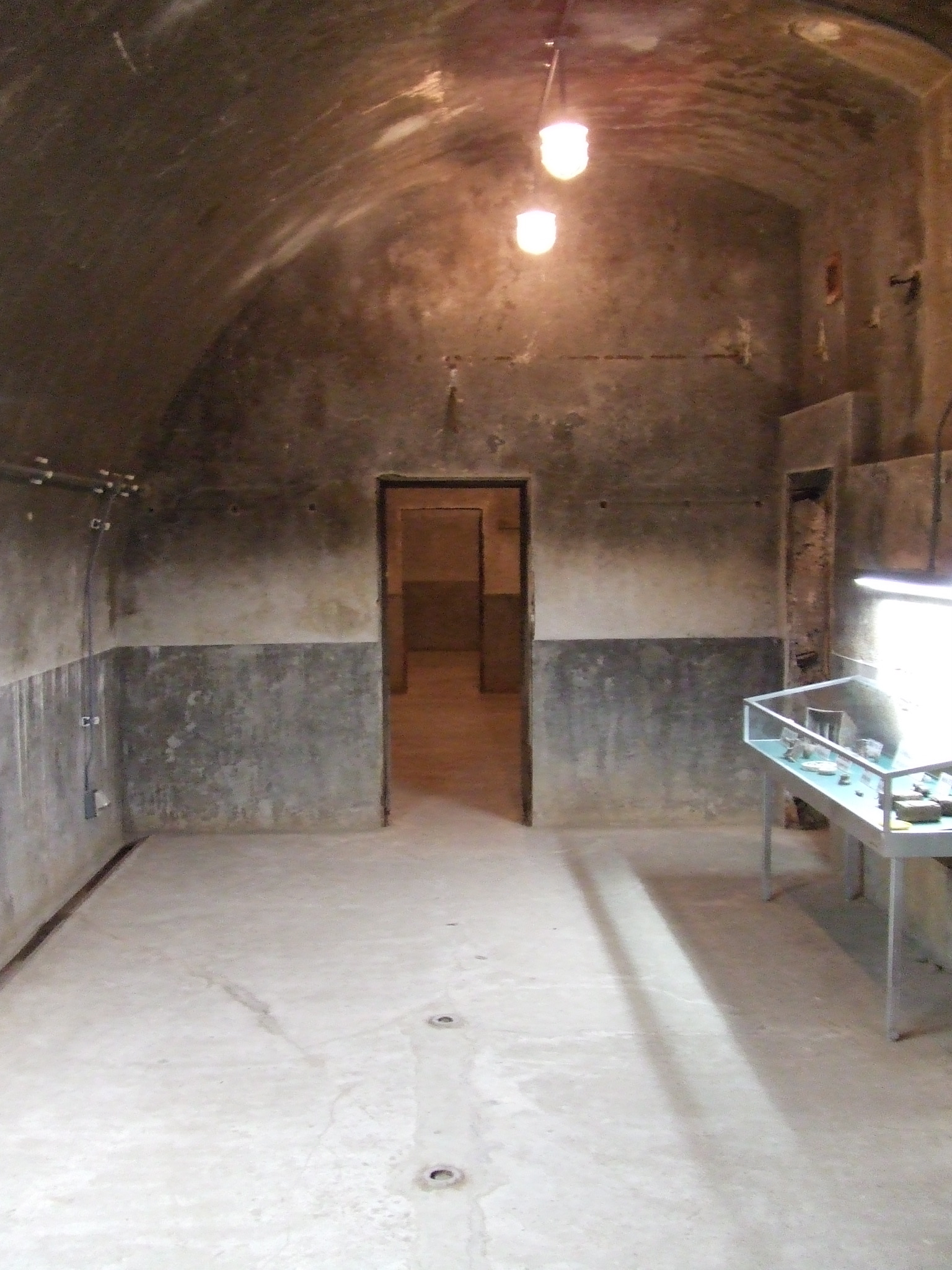 The Governer's office of Nagasaki prefecture in WW II shelter. This shelter was quite distant from A-bomb ground zero, thus there was no death toll.